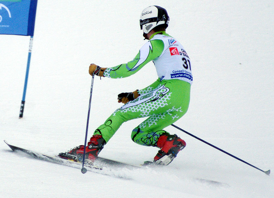 A telemark skier on a telemark competition, in the "telemark position", knee bent